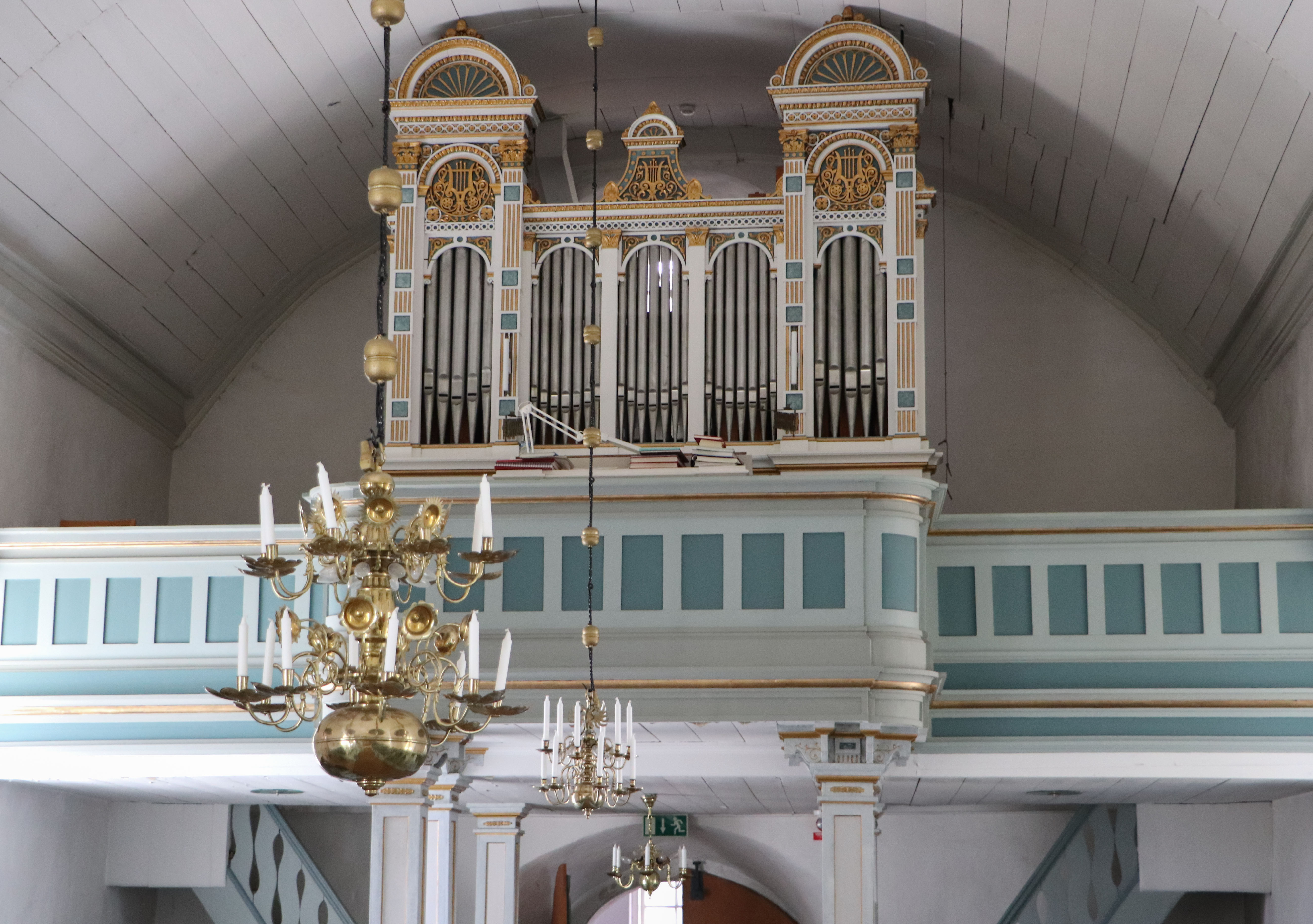 Ås Church,Öland. The organ